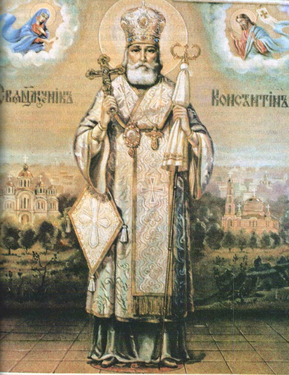 Icon of Hieromartyr Constantine (Dyakov))